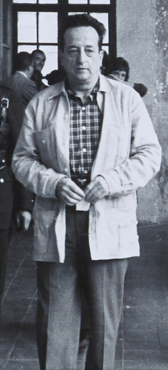 A commemorative plaque of Valentín Campa, a Mexican communist and activist. The plaque was unveiled in Mexico City on 24 November 2019.